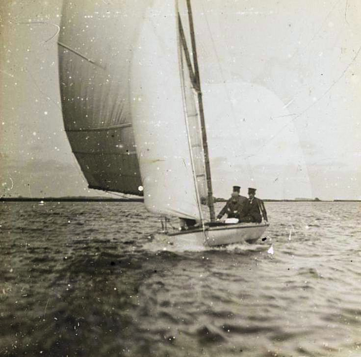 The Yacht Sidi-Fekkar in 1910